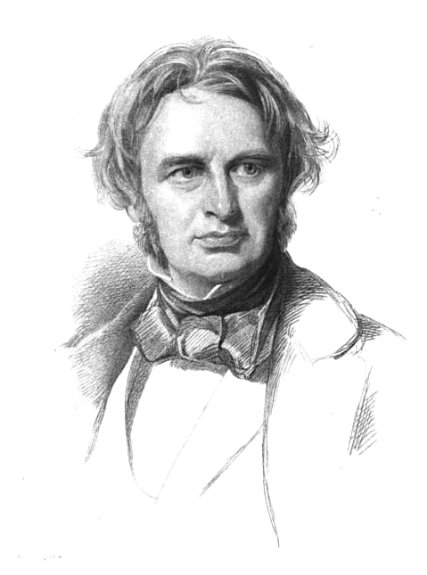 Engraving of American poet Henry Wadsworth Longfellow, presumably after a portrait by Samuel Lawrence. From the book Final Memorials of Henry Wadsworth Longfellow by (brother) Samuel Longfellow. Published by Ticknor and Company, 1887. Original portrait dates to 1854.